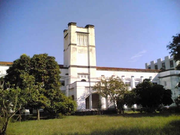 The Old Royal College Building, Colombo housing the Department of Mathematics, University of Colombo